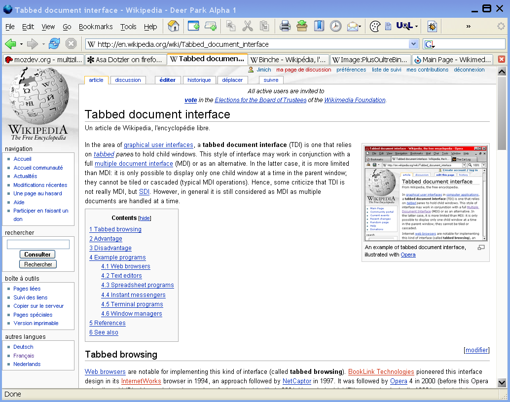 A screenshot of Mozilla Firefox displaying Tabbed document interface, with multiple tabs.